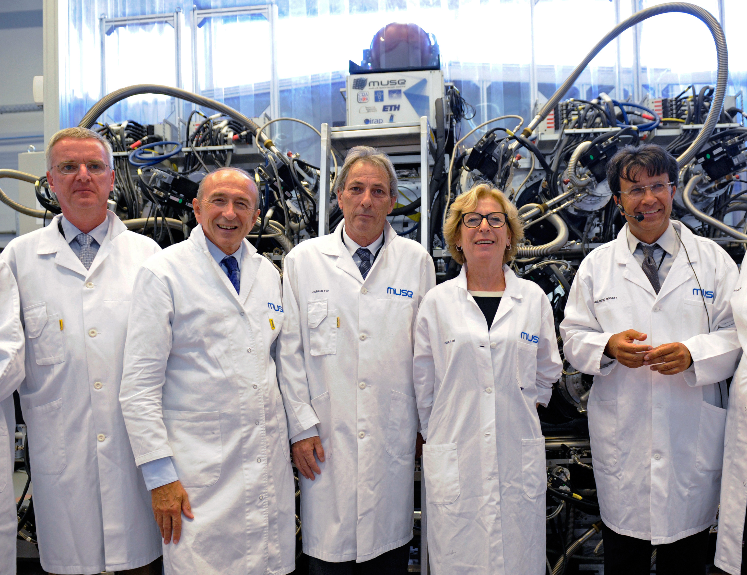 On 6–7 September 2013, the Observatoire de Lyon opened its doors to the press and scientific community for two days of presentations, tours of the recently completed MUSE instrument for ESO’s Very Large Telescope in Chile. In attendance were the French Minister of Higher Education and Research, Geneviève Fioraso and the ESO Director General, Tim de Zeeuw. This picture shows, from left to right, Tim de Zeeuw, Director General of ESO, Gérard Collomb, sénateur-maire de Lyon, François-Noël Gilly, président de l'université Claude Bernard Lyon 1, Geneviève Fioraso, ministre de l'enseignement supérieur et de la recherche and Roland Bacon, Principal Investigator of MUSE.